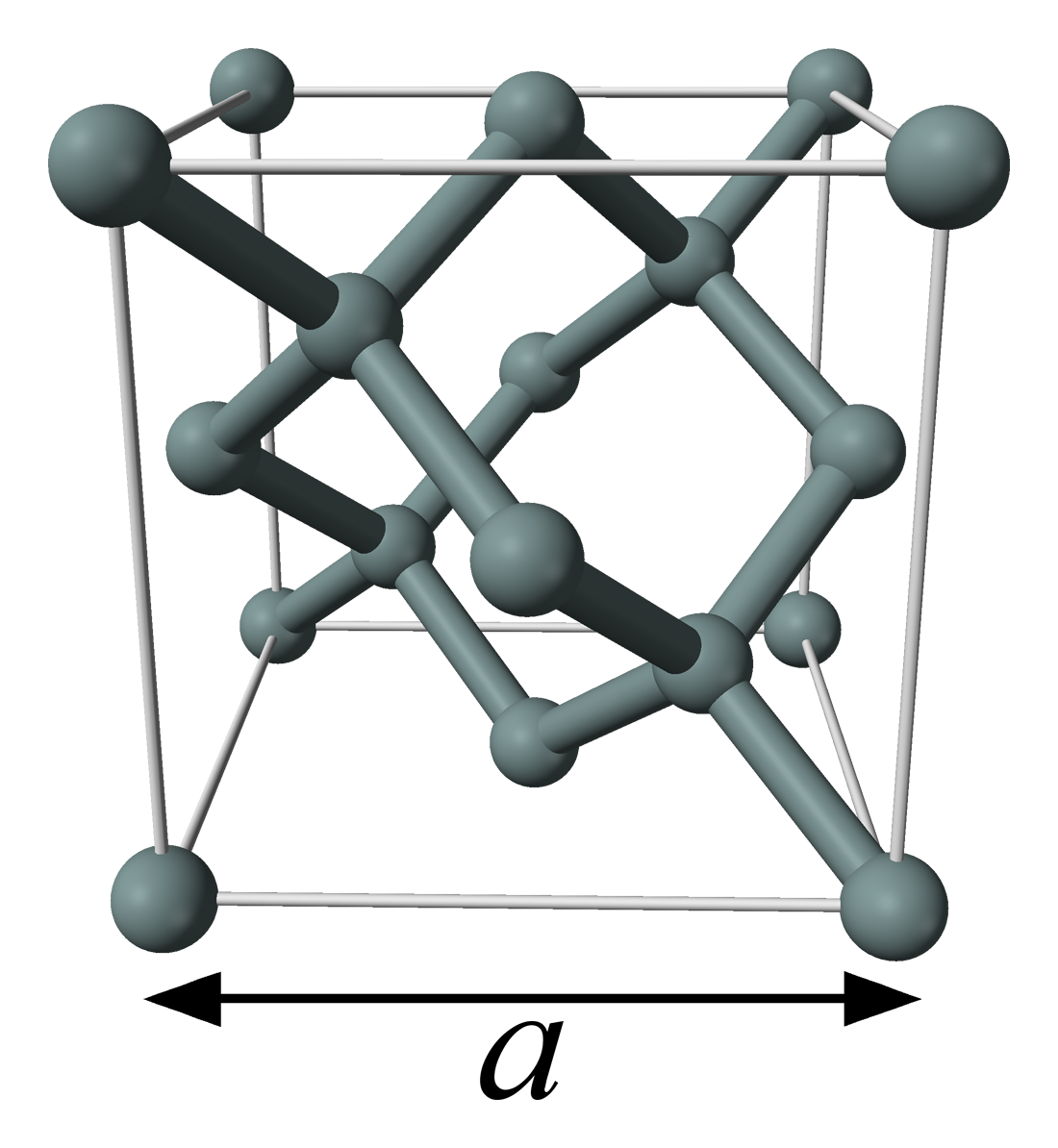 Ball-and-stick model of the unit cell of silicon, with the cell length, a, labelled